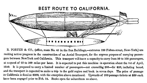 Rufus Porter 1849 advertisement. Immediate image source: [1]. Lupo 07:42, 20 March 2006 (UTC) Changed copyright tag from PD-US to PD-Old since this was an 1849 publication and the author (Rufus Porter) died in 1884. The image was likely scanned from a 1935 reprint of the 1849 pamphlet. Carl Lindberg 06:06, 19 March 2006 (UTC) See immediate img source. Originally published 1849 in Porter, R.: Aerial Navigation:..., H. Smith Publisher, New York 1849. Lupo 07:42, 20 March 2006 (UTC)